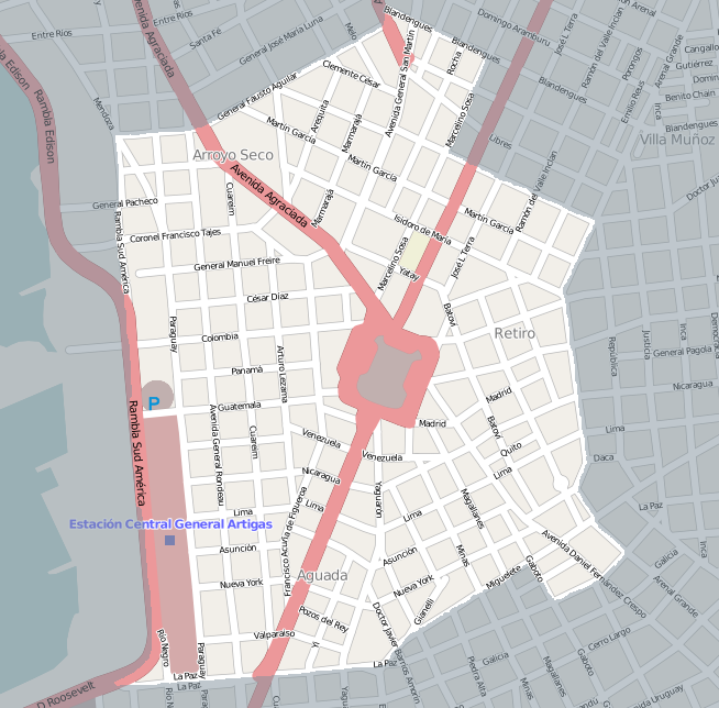 Street map of Aguada, Montevideo, exported from OpenStreetMap. I added shading to delimit the barrio. This map may be incomplete, and may contain errors. Don't rely solely on it for navigation.